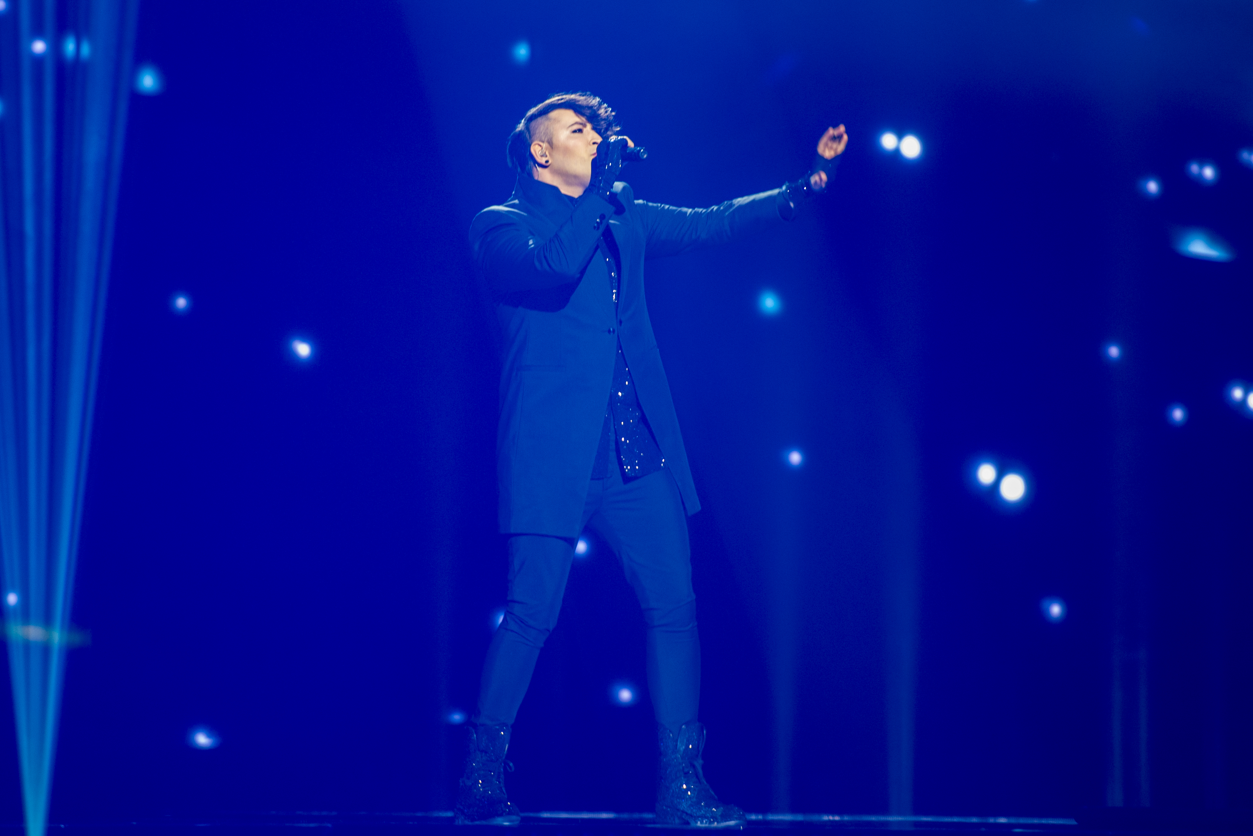 Hovi Star representing Israel with the song "Made of Stars" during a rehearsal before the second semi final of the Eurovision Song Contest 2016 in Stockholm. (Help translate this text)